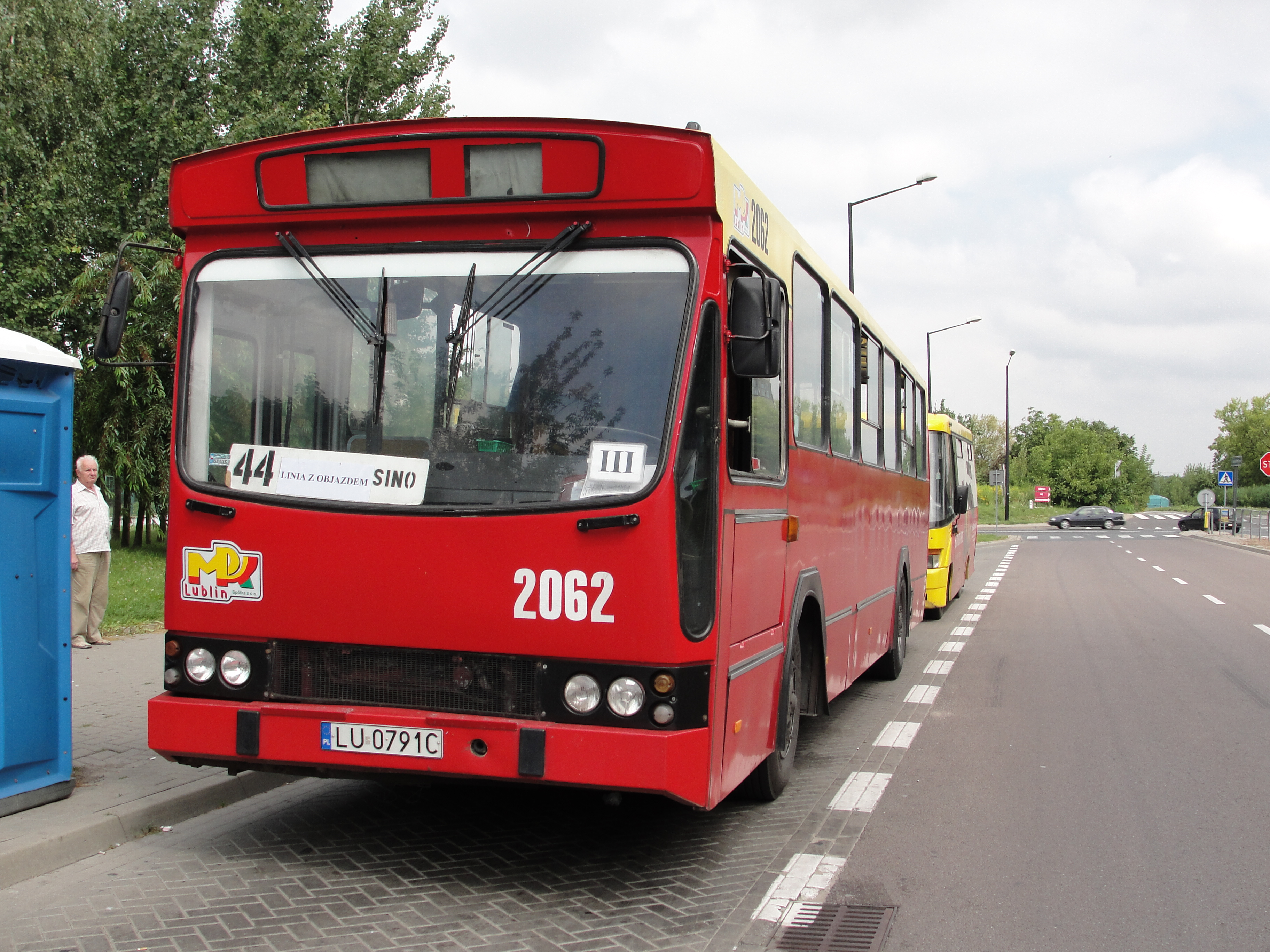 Jelcz M11 bus (#2062) in Lublin, Poland. Built 1988, MPK Lublin operator.